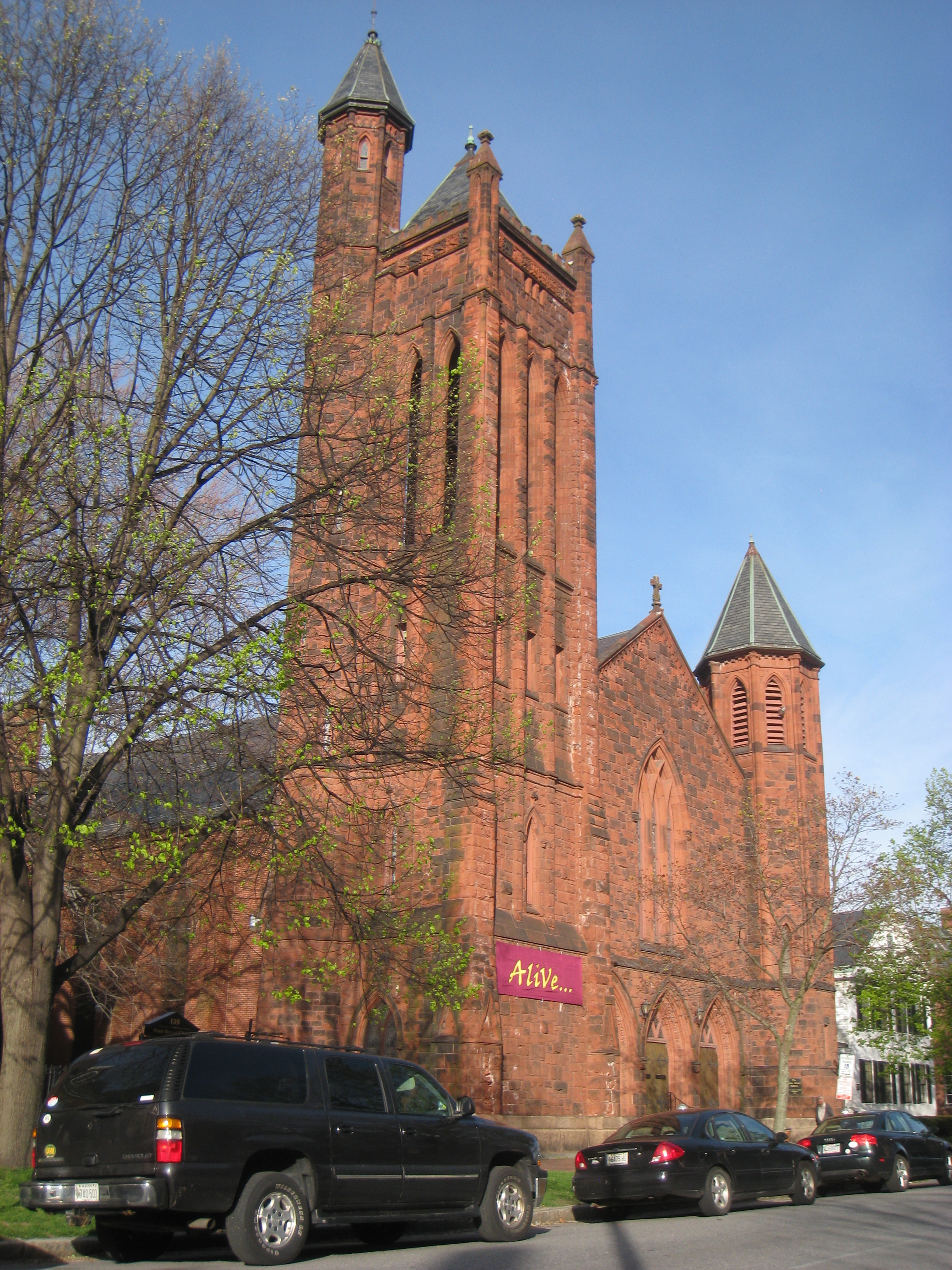 State Street Congregational Church, Portland, Maine, USA. Architect John Calvin Stevens.